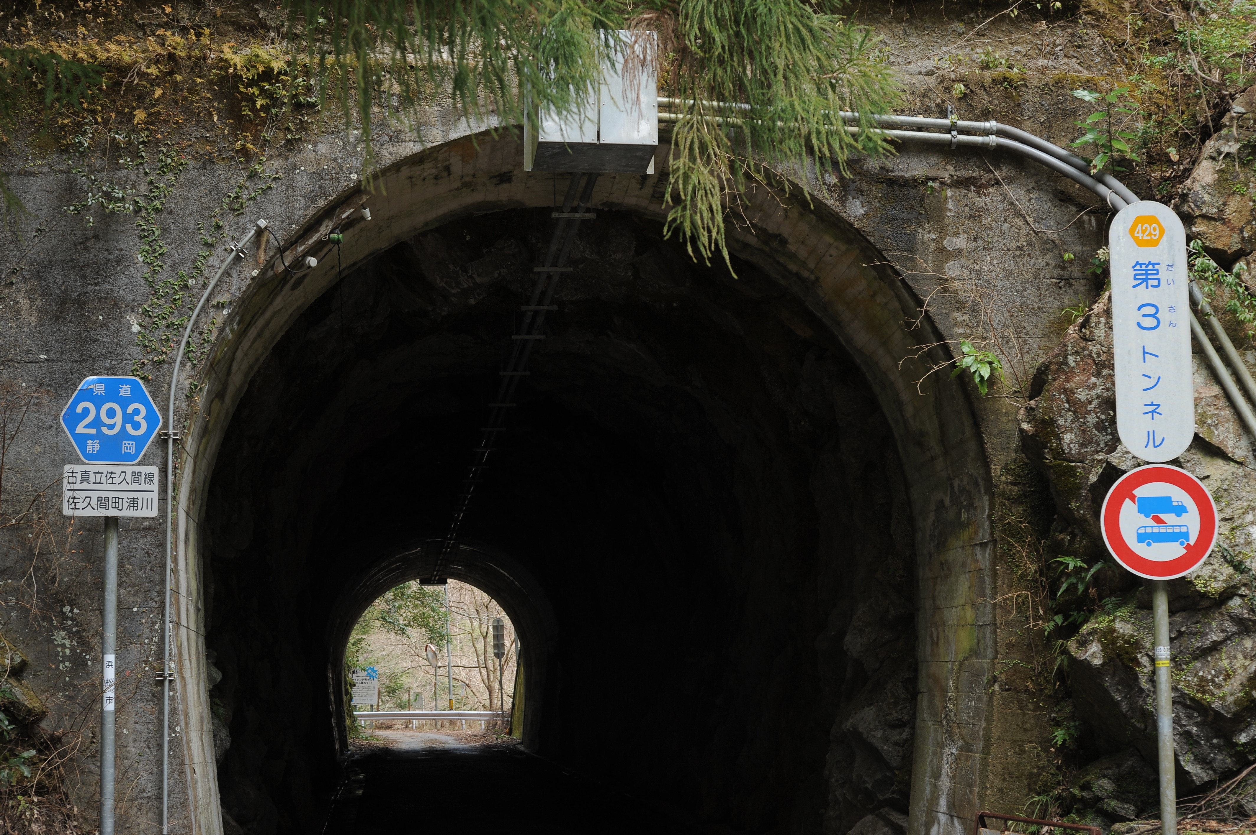 Dai 3 (The 3rd) tunnel, Aichi prefectural Route 429, Toei, Aichi